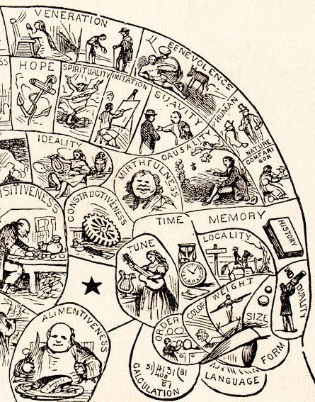 Phrenological diagram cropped to show "organs" at top and front of head